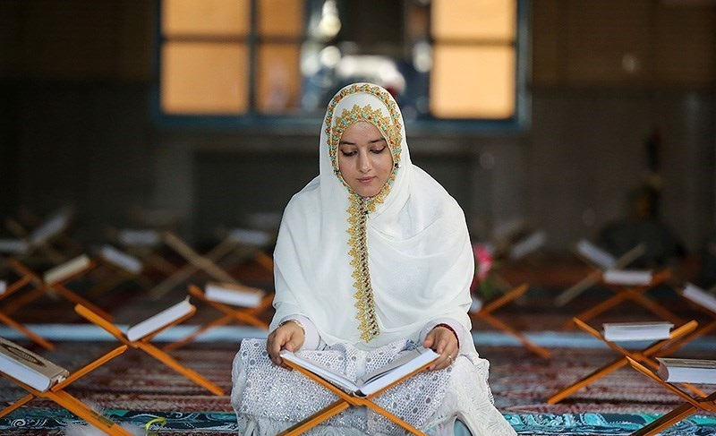 Ramadan 1439 AH, Qur'an reading at Jameh Mosque of Sanandaj - 29 May 2018. main album